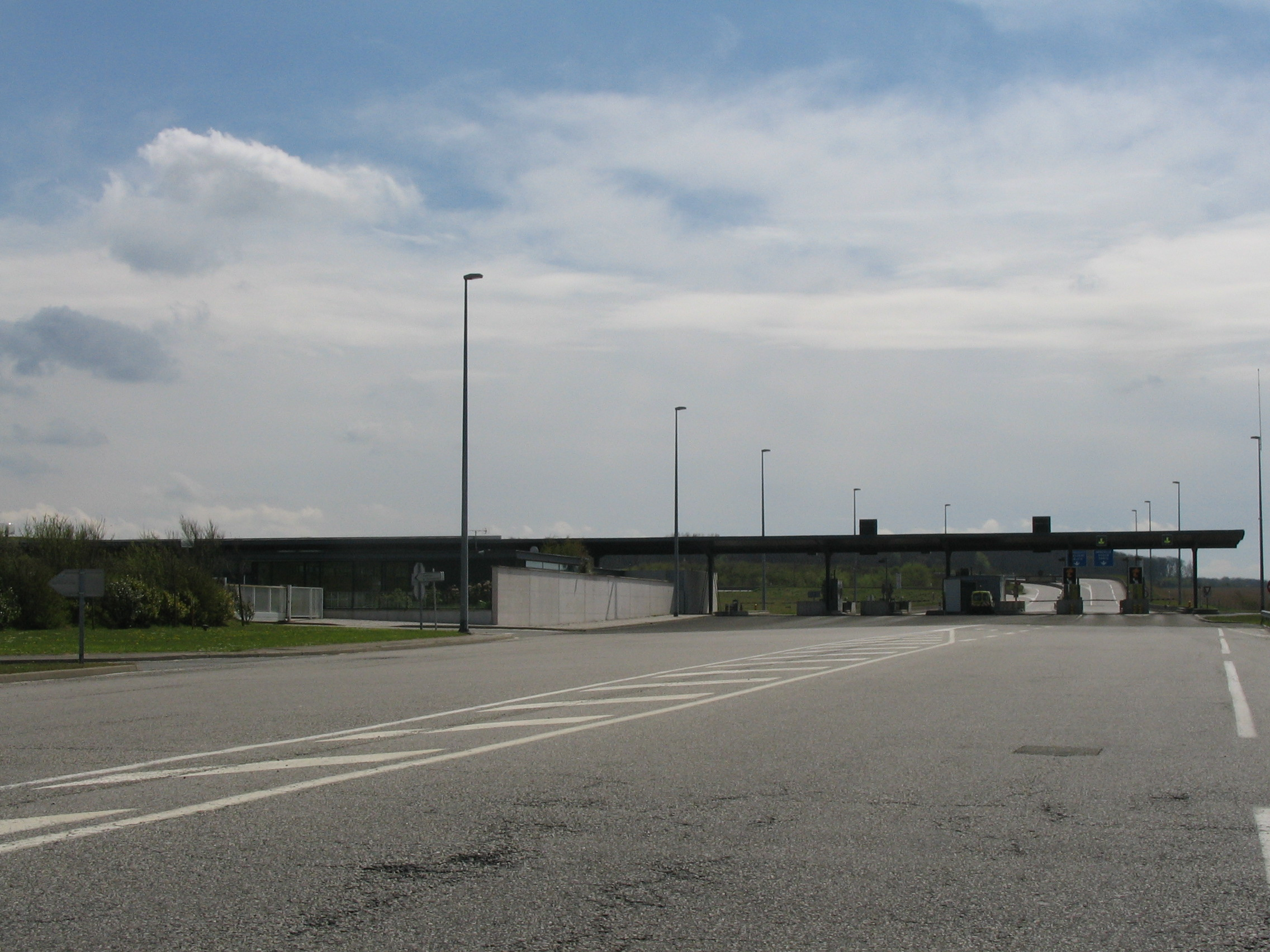 Sortie 25, autoroute A16, Wailly-Beaucamp, Pas-de-Calais, Fr.